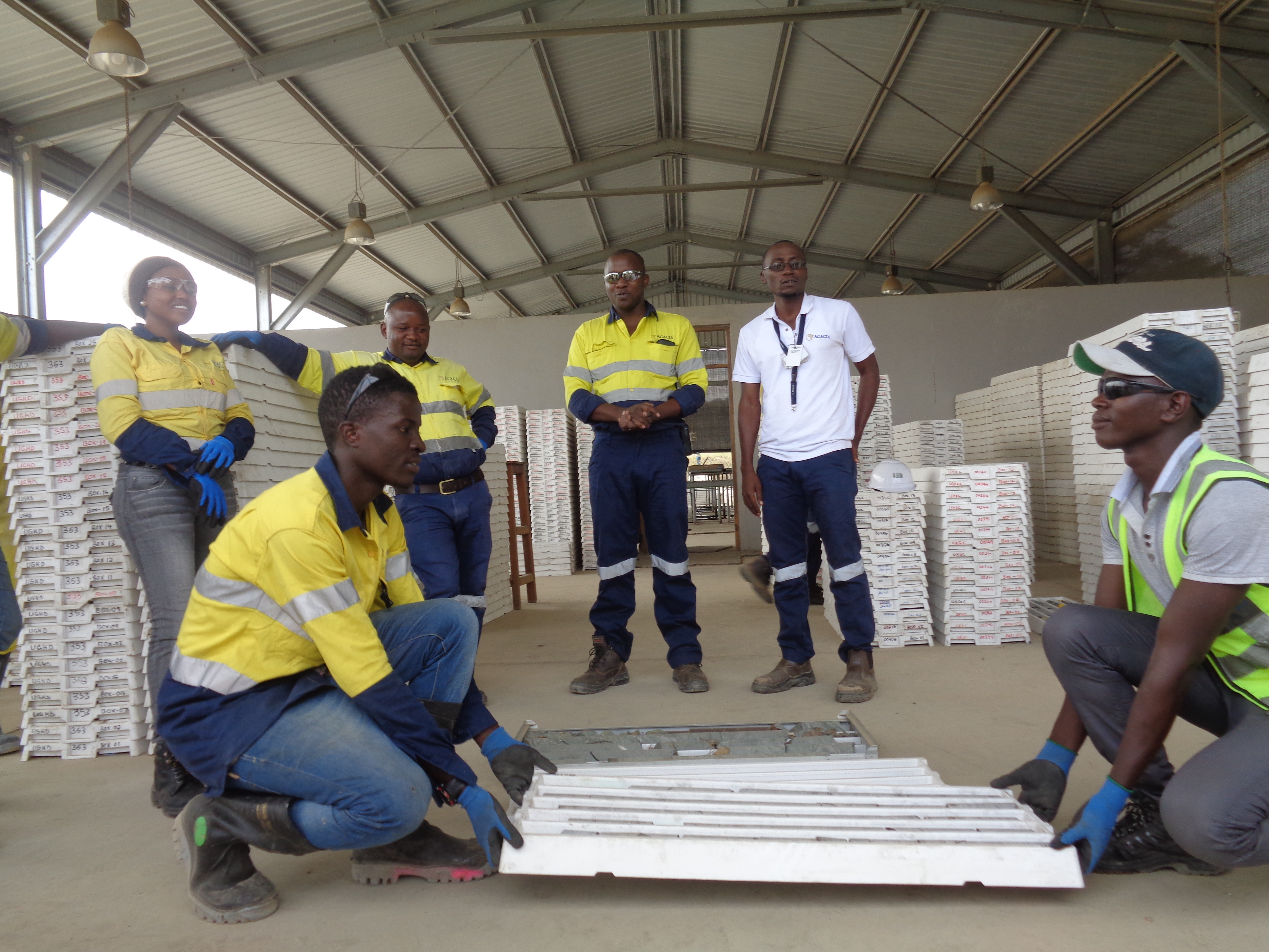 Training conducted on manual handling to Tanzania nationals This is an image of "African people at work" from Tanzania